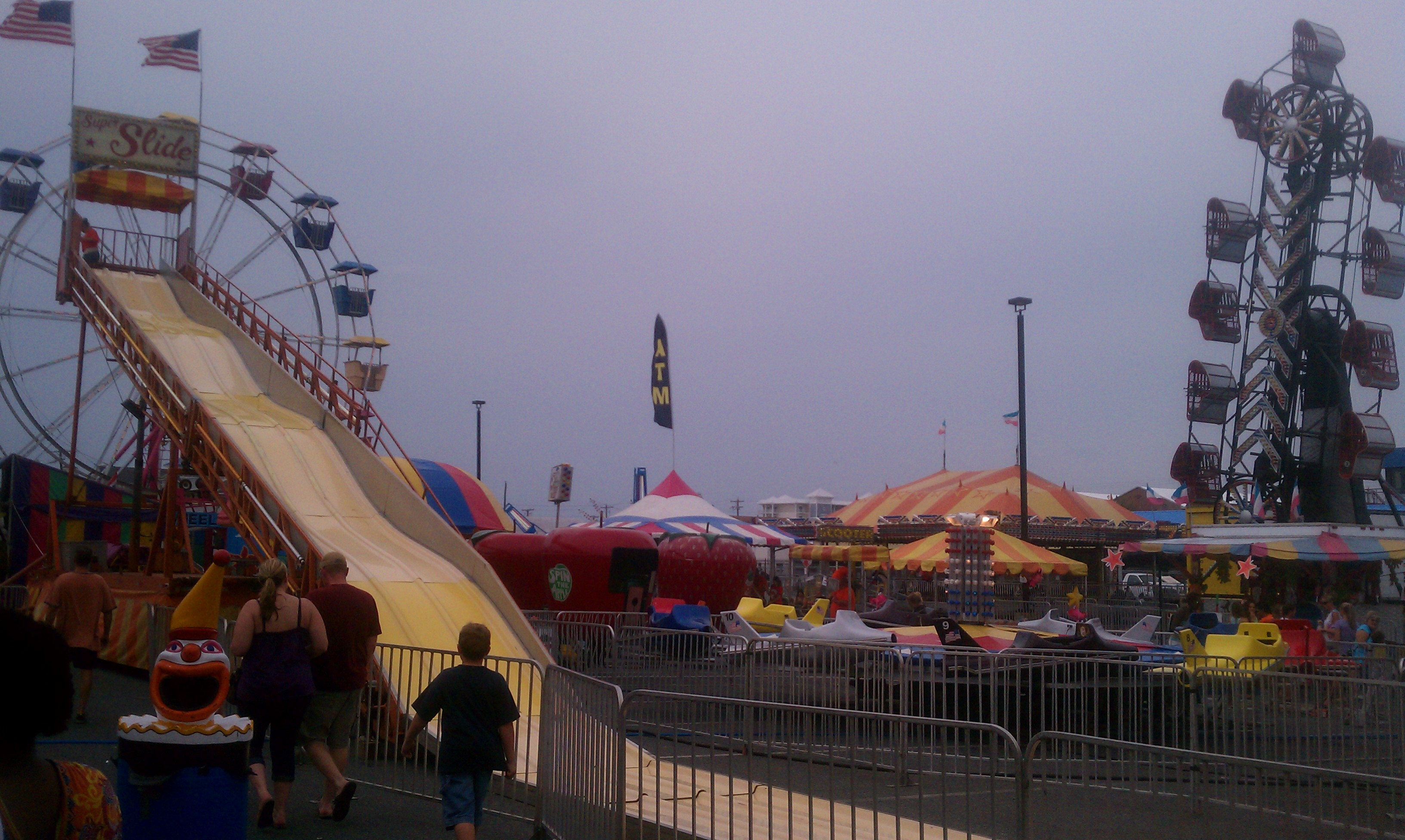 A view of the Marina in Crisfield during the National Hard Crab Derby.